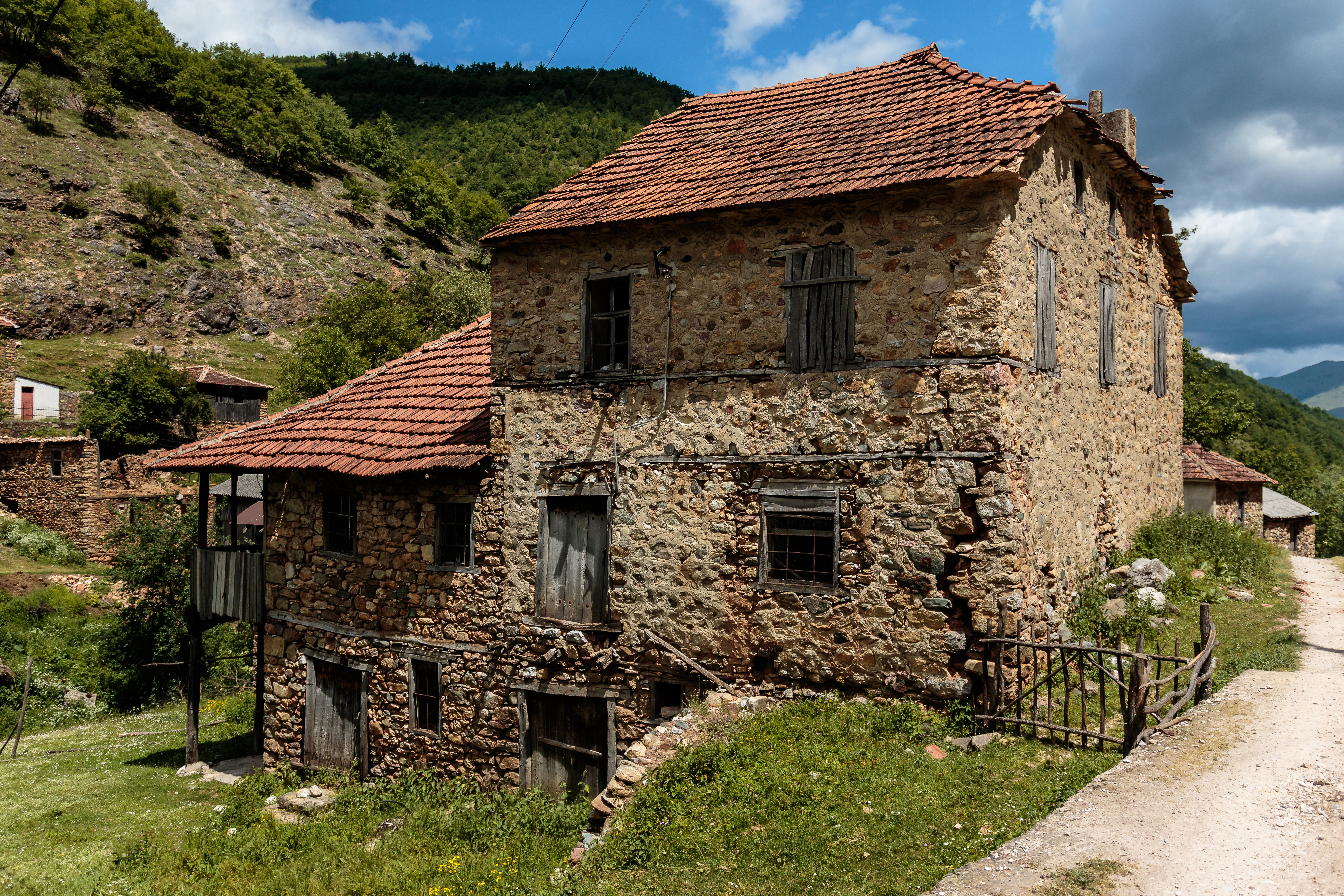 Traditional house in the village of Malo Ilino, Železnik, Macedonia.